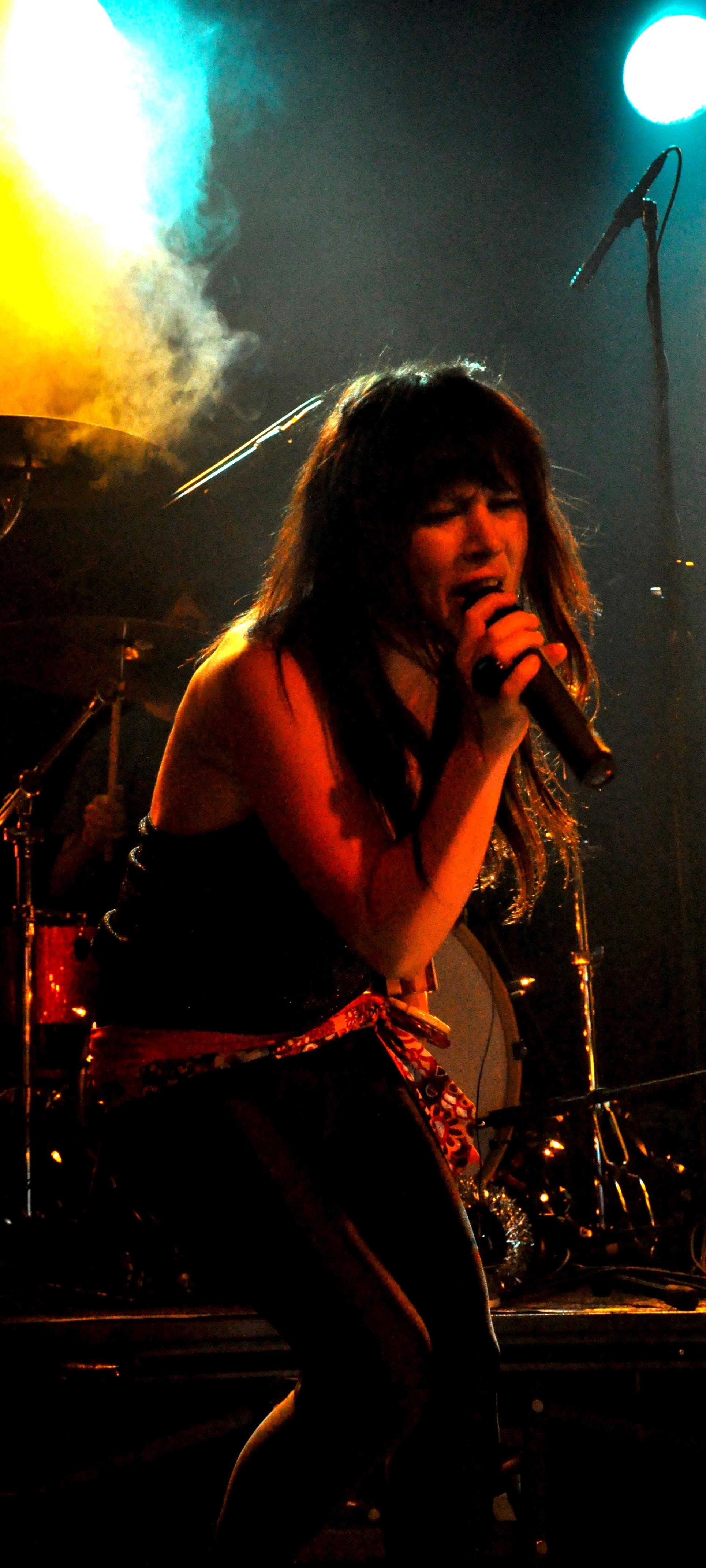 The band wrap up an incredible year with a hometown headliner.